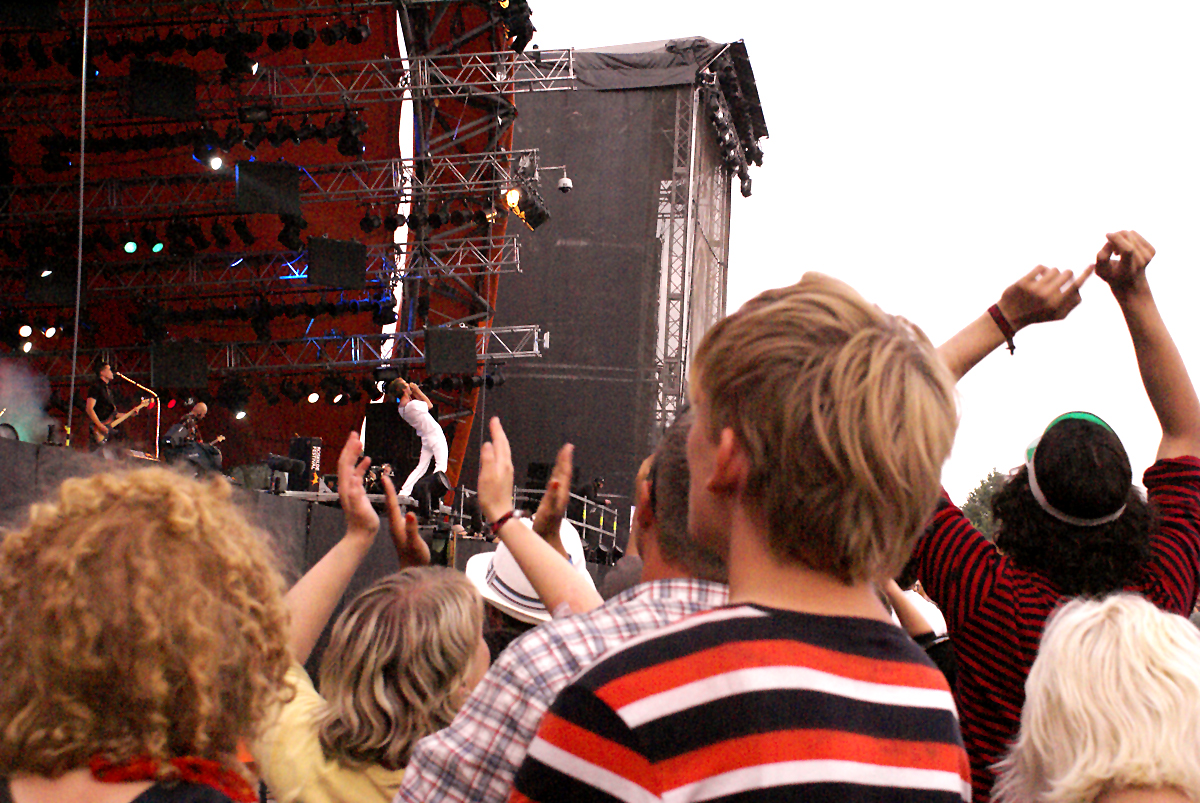 The Swedish rock band bob hund at Roskilde Festival 2008, Denmark